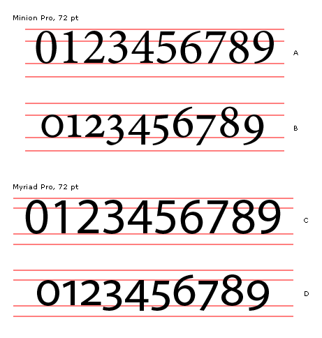 Lining and old-style figures from Minion Pro and Myriad Pro, 72 pt. No copyright is assigned to this picture, however the actual fonts are under copyright.